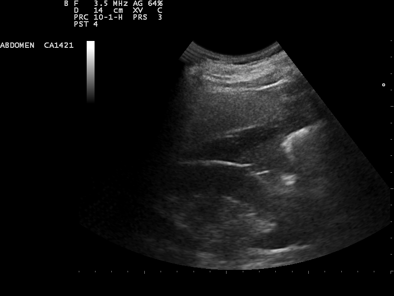 Medical ultrasound image. Provided as-is. Please feel free to categorise, add description, crop.